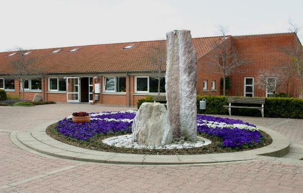 School of agriculture in Denmark with the name Jordbrugets UddannelsesCenter (section Beder) from north-east